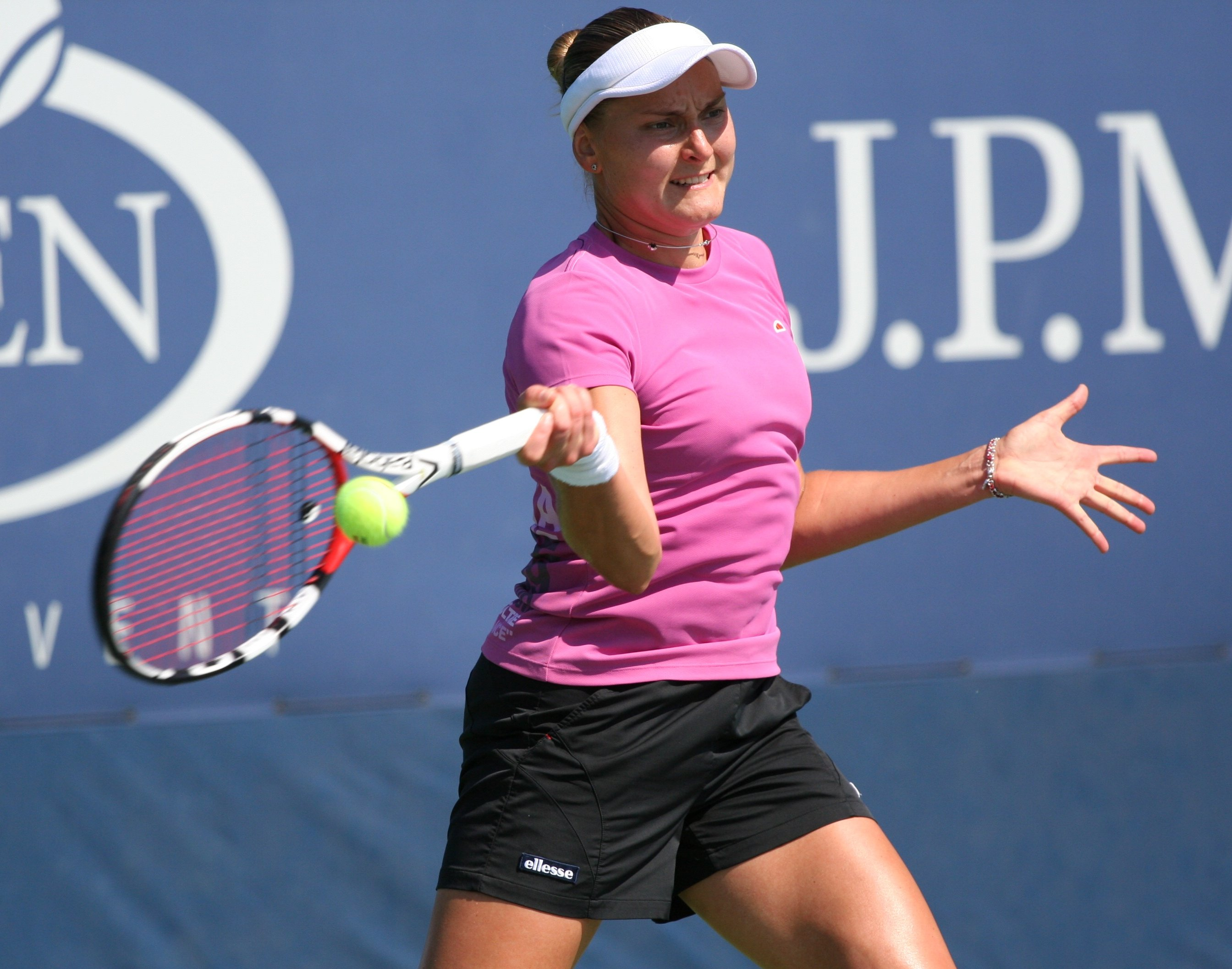 U.S. Open practice Saturday, Sept. 5, 2009